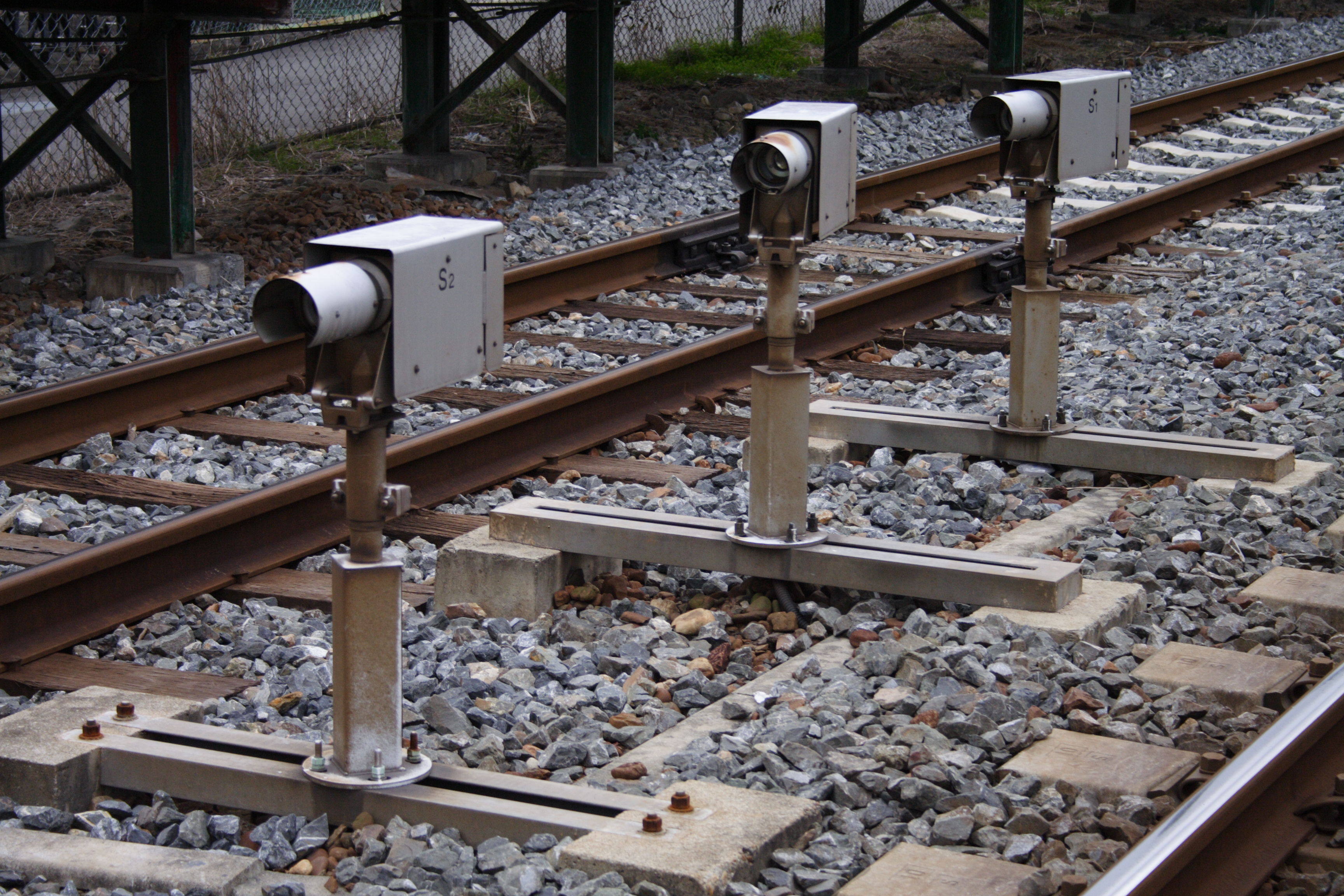 踏切障害物検知装置/A_safety_device_of_a_railroad_crossing